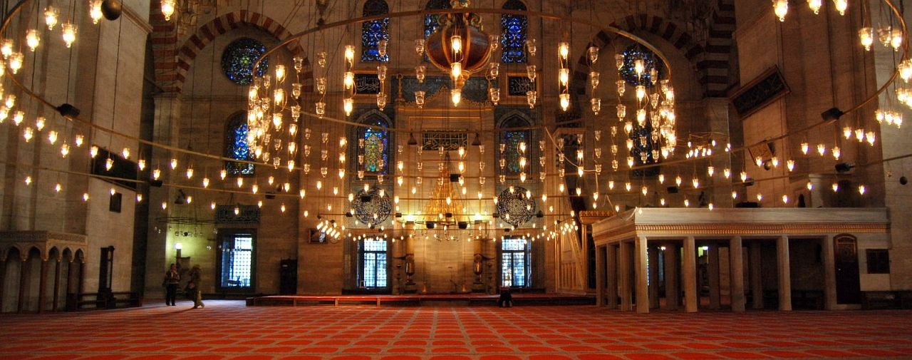 Süleymaniye Mosque, interior, view towards the qiblah, Istanbul, Turkey